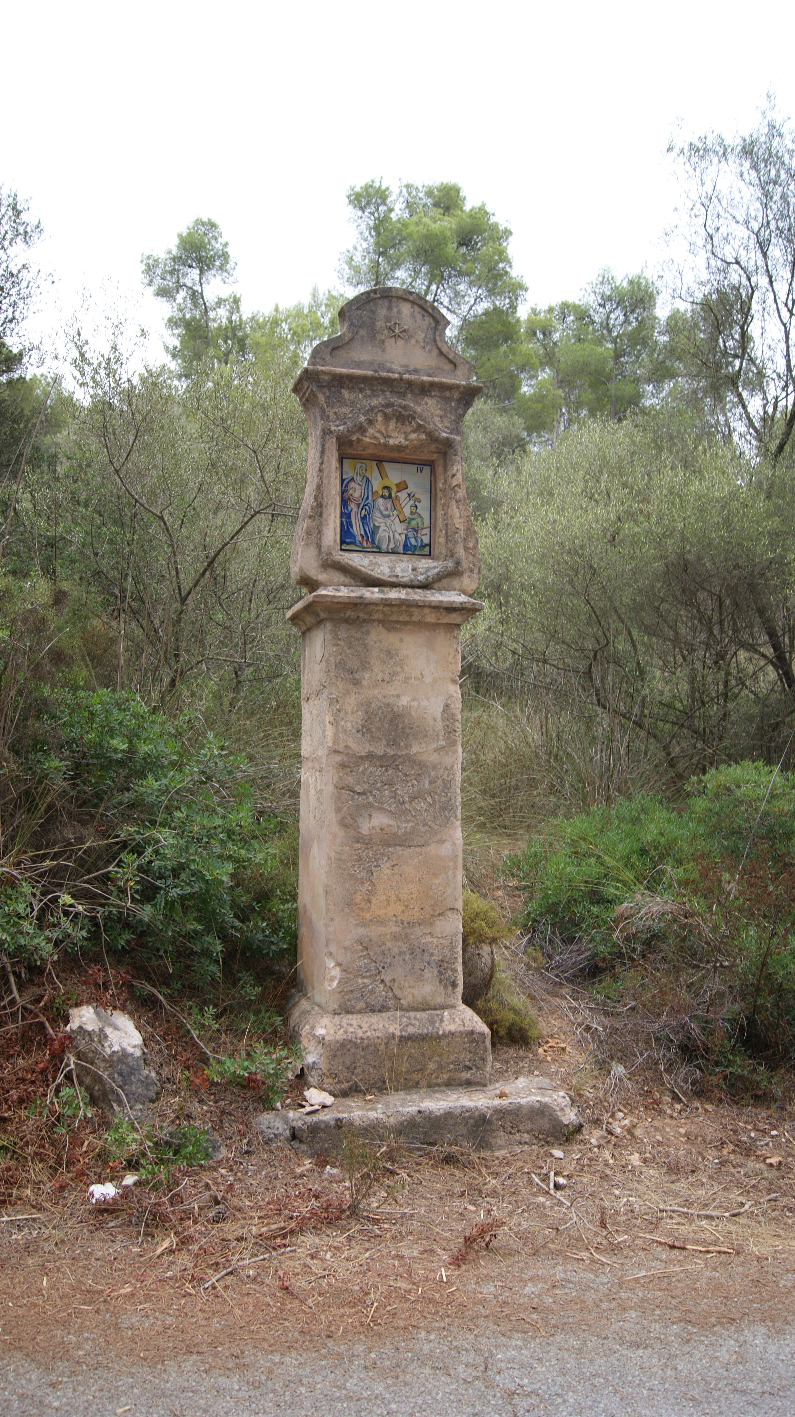 Way of the cross No. 4 by the Santuari de Monti-Sión (former monastery and school) near Porreres on Mallorca.